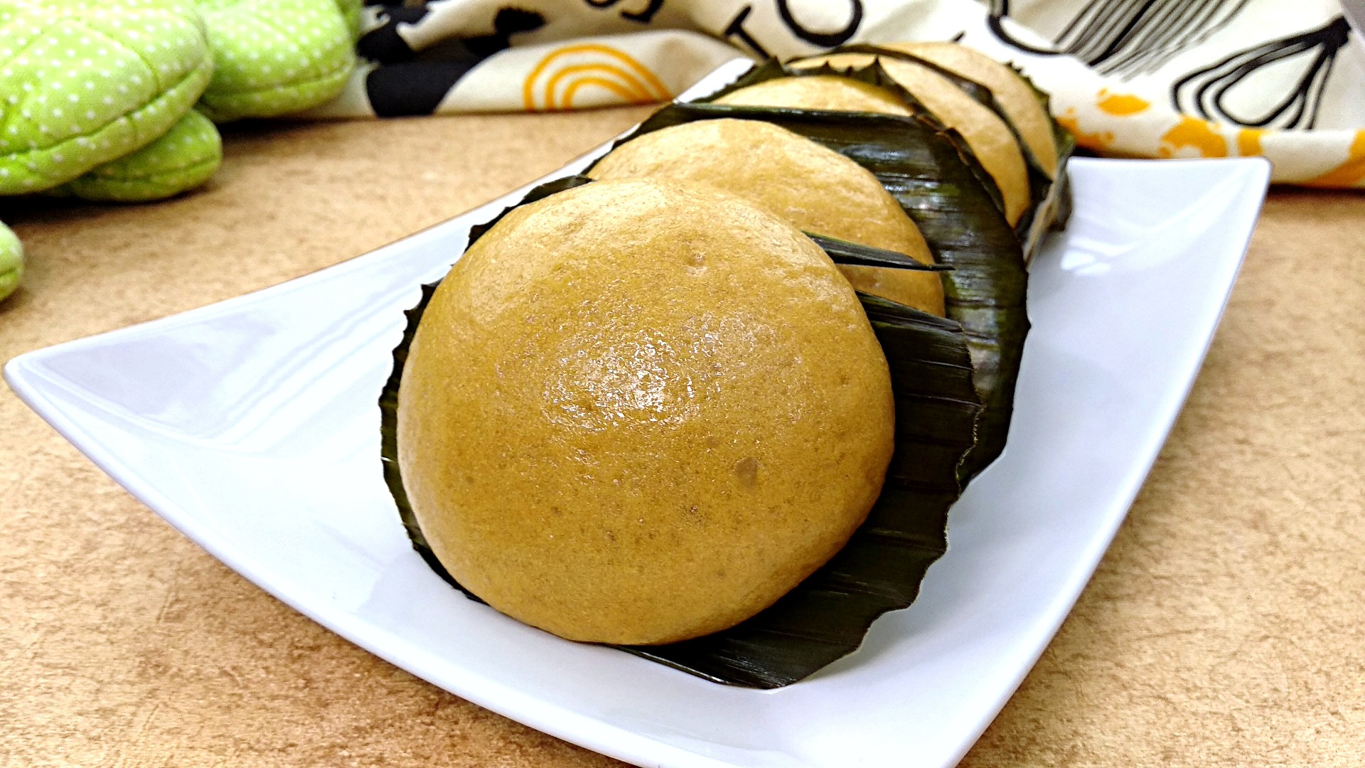 This is a variation from the traditional Hee Pan, It is made out of brown sugar.